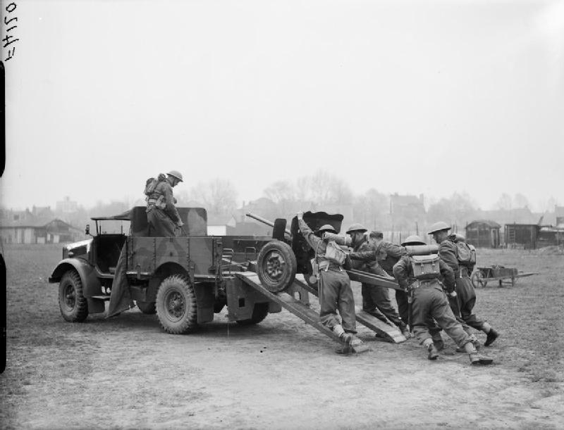 The British Army in France 1940 Men of 2nd Battalion Essex Regiment load a Hotchkiss 25mm SA 34 anti-tank gun onto the back of a Bedford MWG Portee, Meurchin, 27 April 1940.